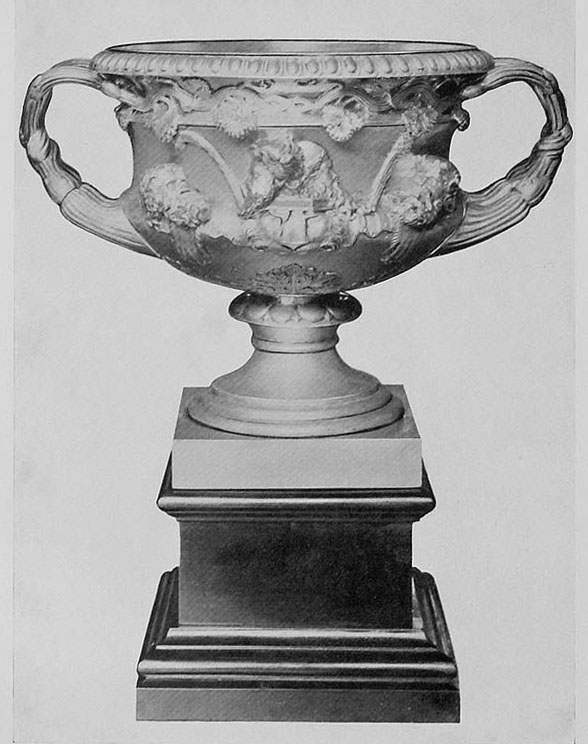 The "Copa Competencia Britanica George IV" trophy, donated by the British ambassador donated in the name of his King. The tournament was played since 1944 to 1948 in Argentina.